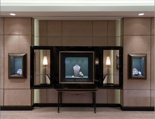 Harry Winston, Moscow